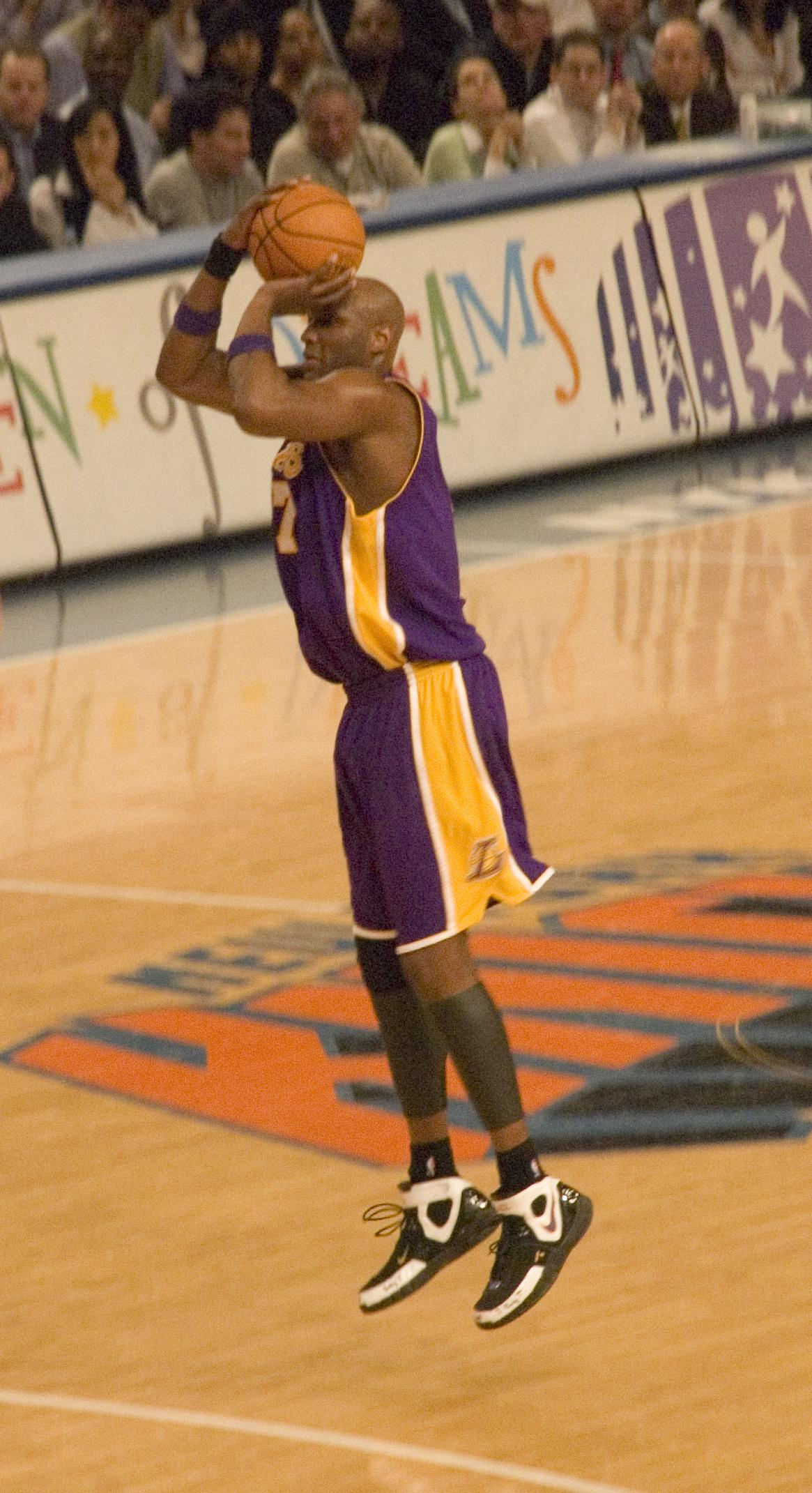 Lamar Odom playing with the Los Angeles Lakers